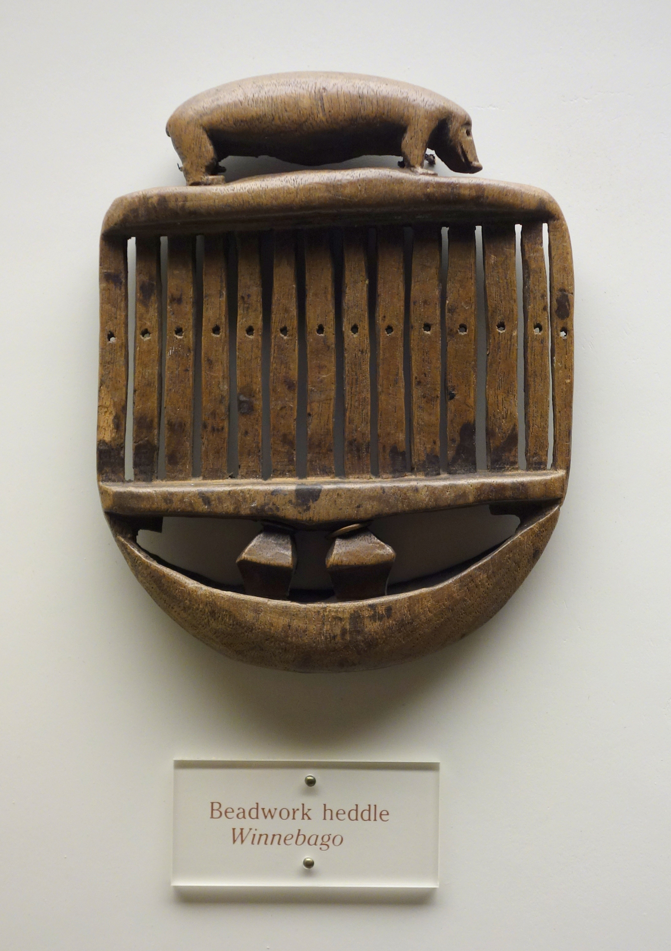 Exhibit in the Wisconsin Historical Museum, Madison, Wisconsin, USA. This item is old enough so that it is in the public domain.